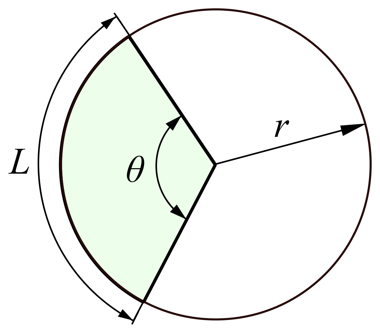 circle sector